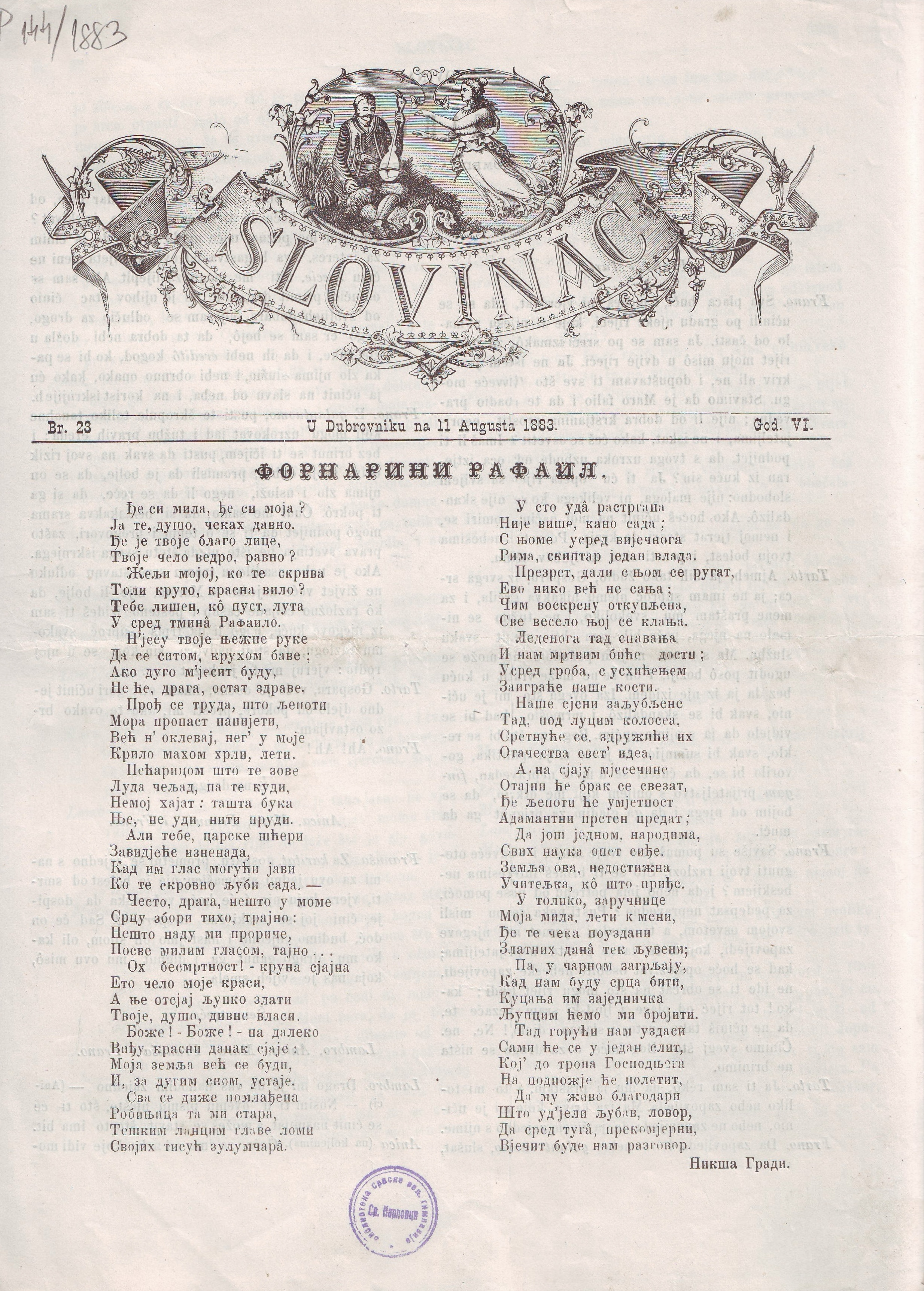 The front page of the magazine Slovinac for 11 August 1883. Srpski (latinica): Naslovna strana lista Slovinac za 11 avgust 1883. godine.